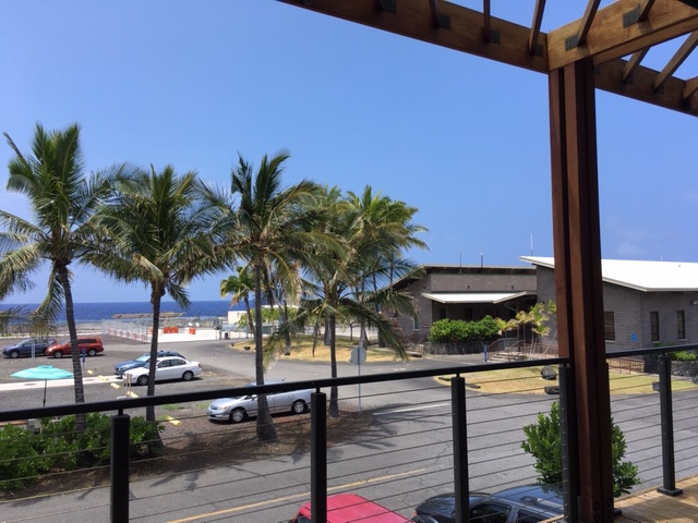 Natural Energy Laboratory of Hawaii Authority: View of the New NELHA Campus